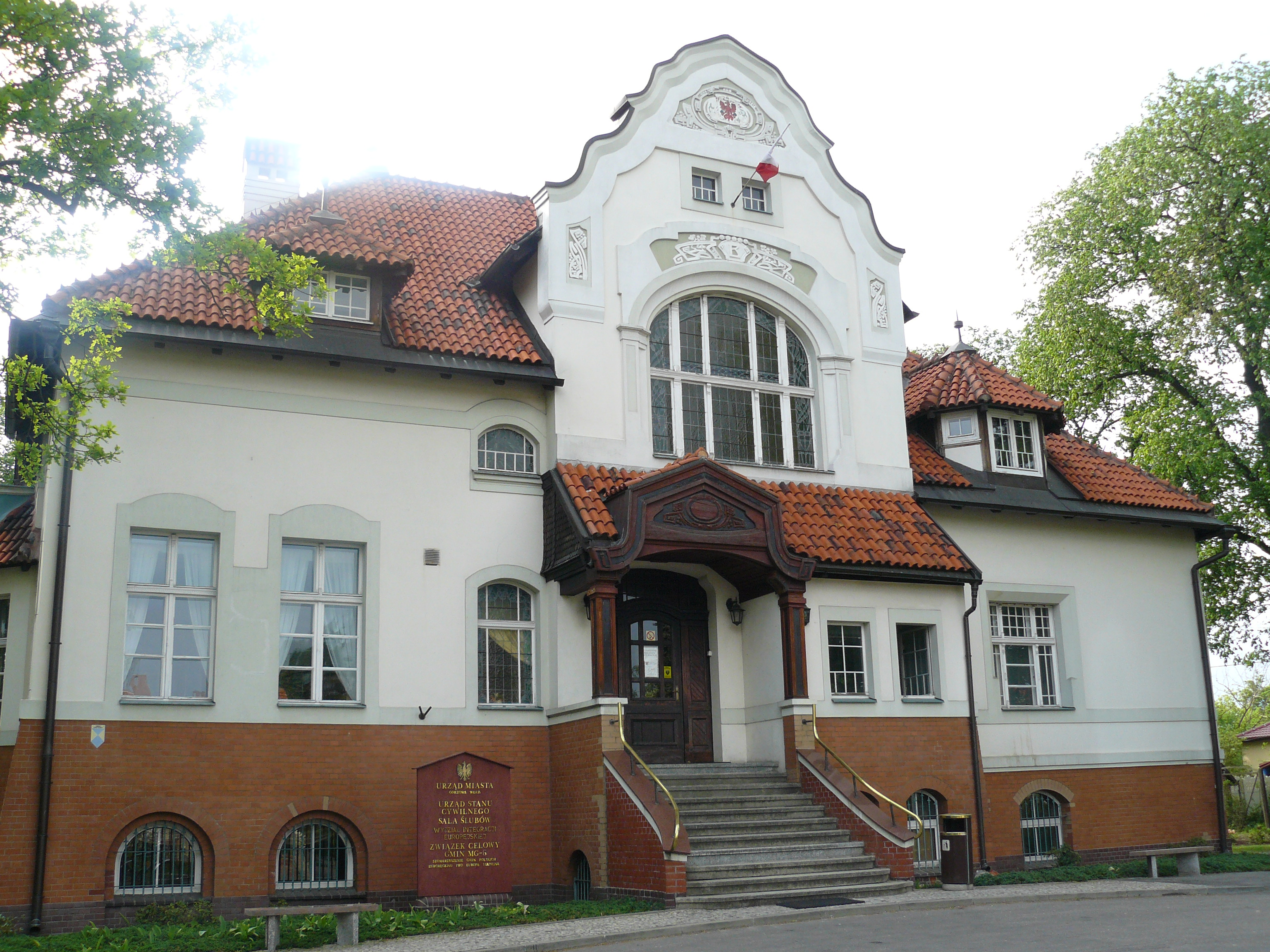 Pałac Ślubów w Gorzowie